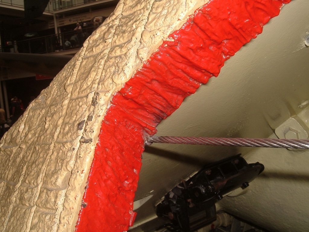 The red shows how thick the armour was on this German WW2 assault tank. It was not thick enough to save it though! As my other pictures show.